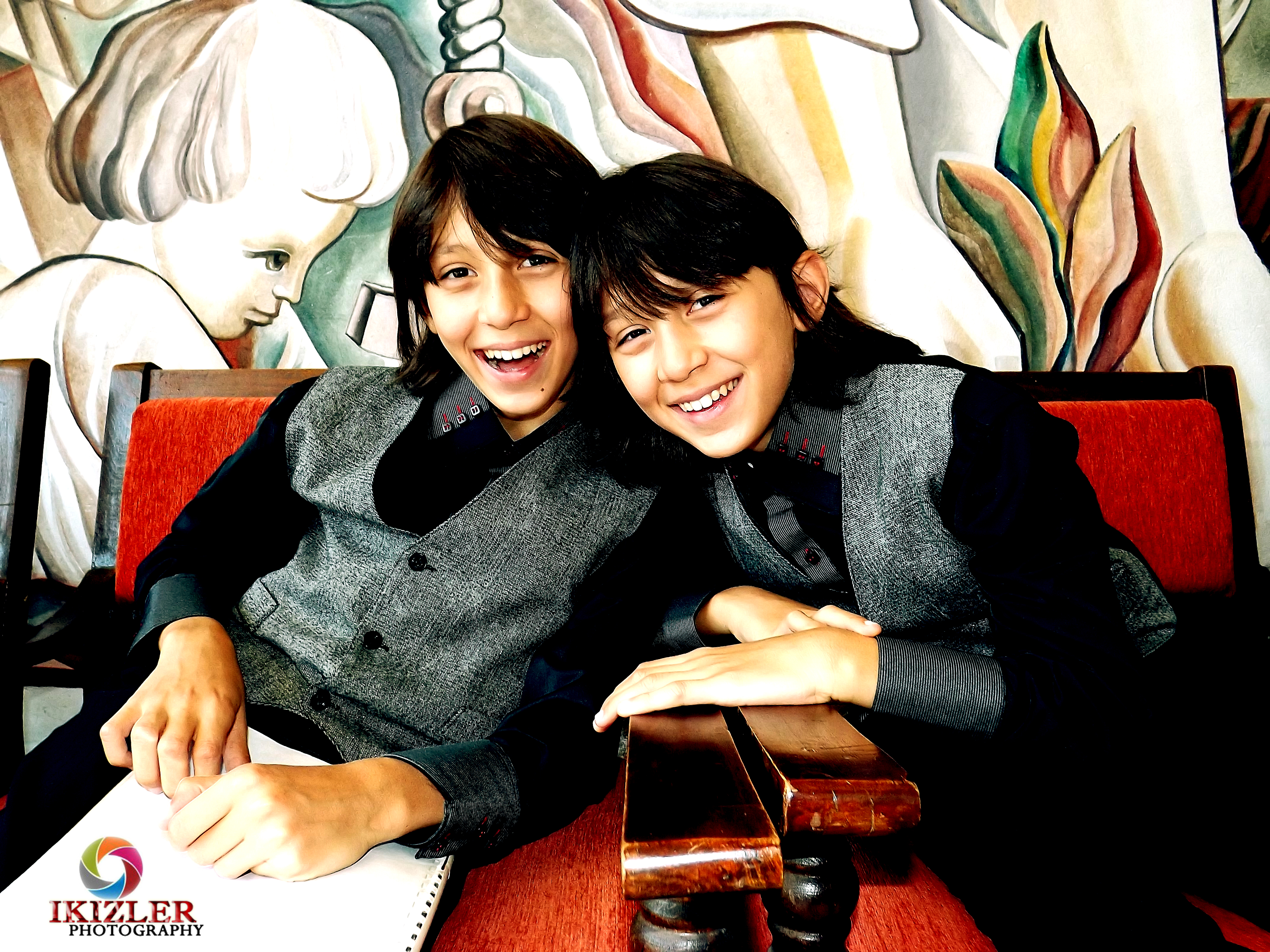 Hassan and Ibrahim Ignatovi